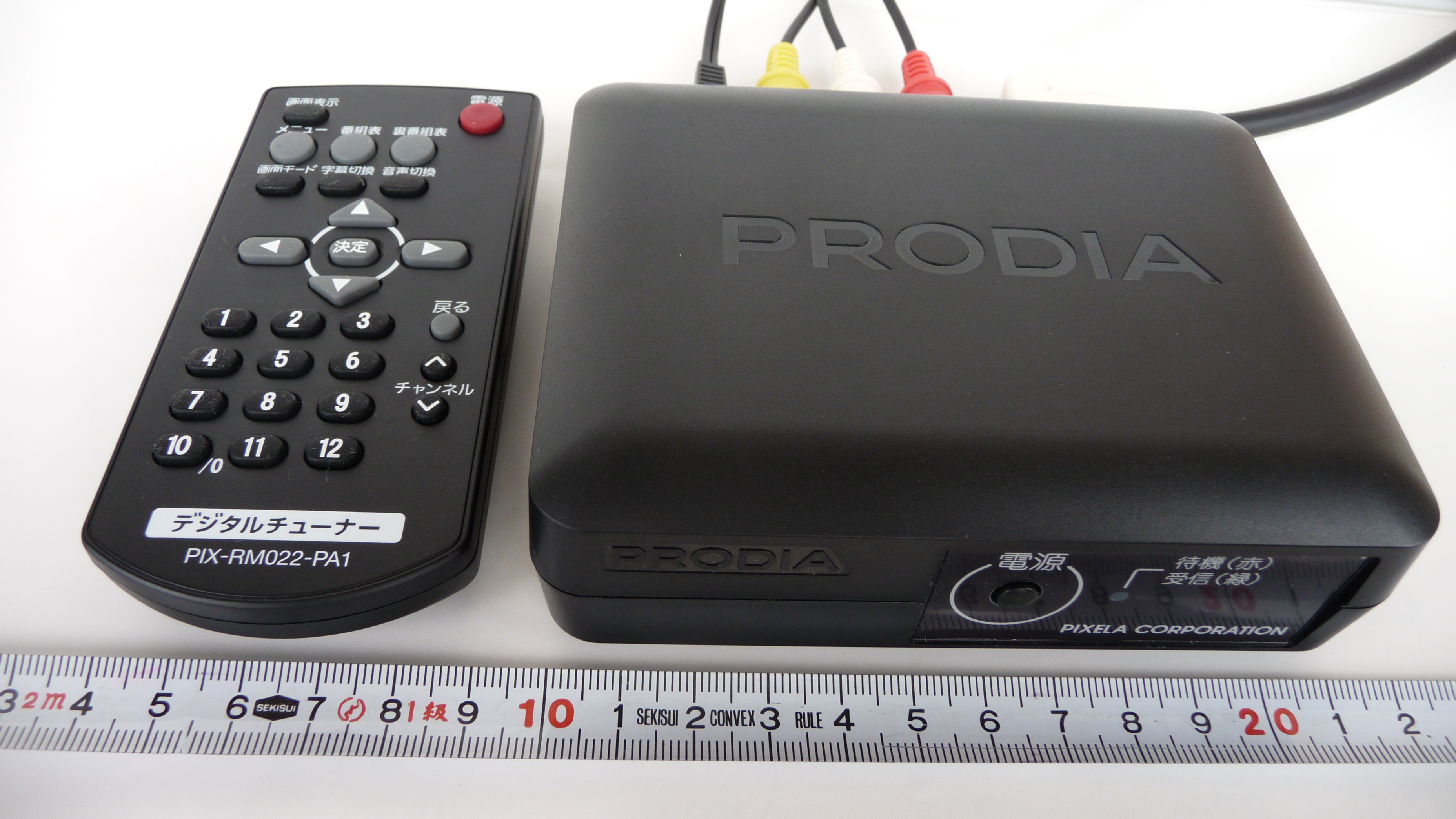 Low price simple DTT, ISDB-T Set-top box (tuner), on sale in Japan in September 2009. Functional for EPG, Superimposition, Earthquake Early Warning. Cable/connector connection on the rear side of tuner from left to right are: from AC adapter, RCA connector to TV set and Coaxial cable from TV Antenna. Model:PRD-BT102-PA1 The retail price with remote was less than Japanese yen 5,000 as of September 2009, and the first unit to meet target retail price which is solicited to industry by Japanese government .